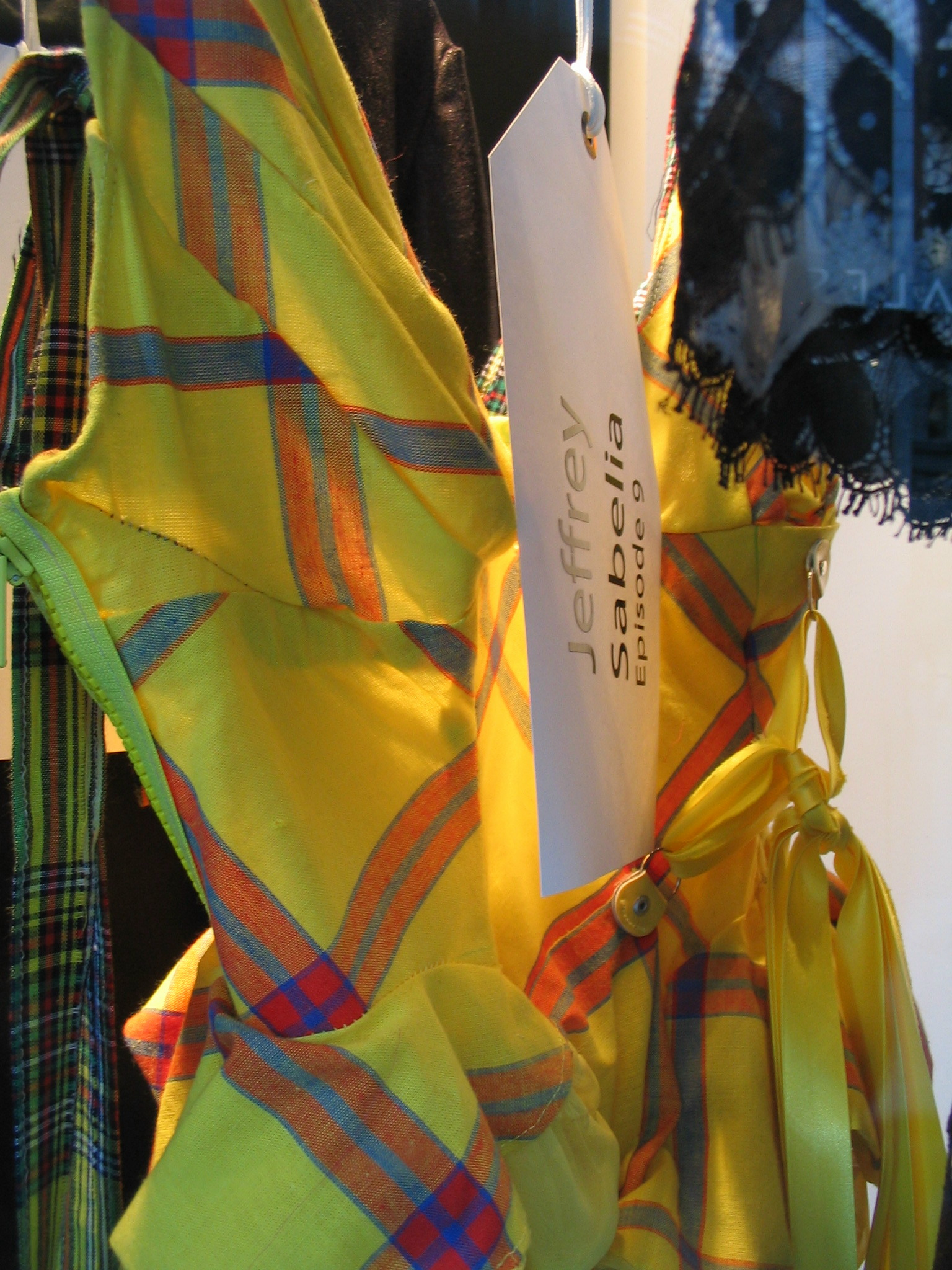 Dress by Jeffrey Sebelia for Project Runway